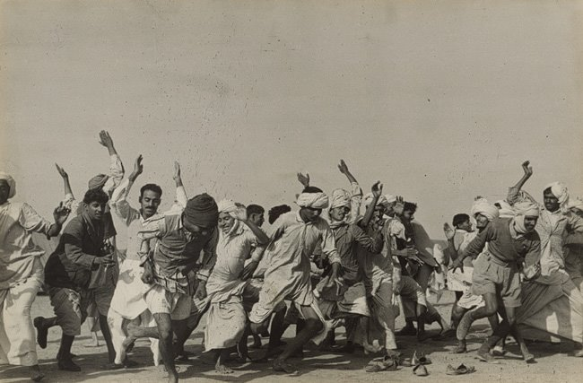 This photograph depicts a group of refugees at the Kurukshetra camp performing simple exercises to drive away lethargy and despair. Framed against a blank wall, as if in an ancient frieze, the wildly dancing figures appear eternally suspended between desperation and ecstasy.